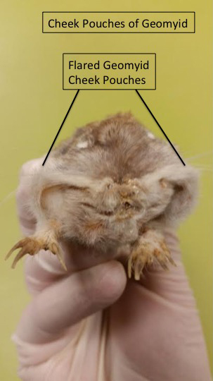 Flared cheek pouches of Geomyid